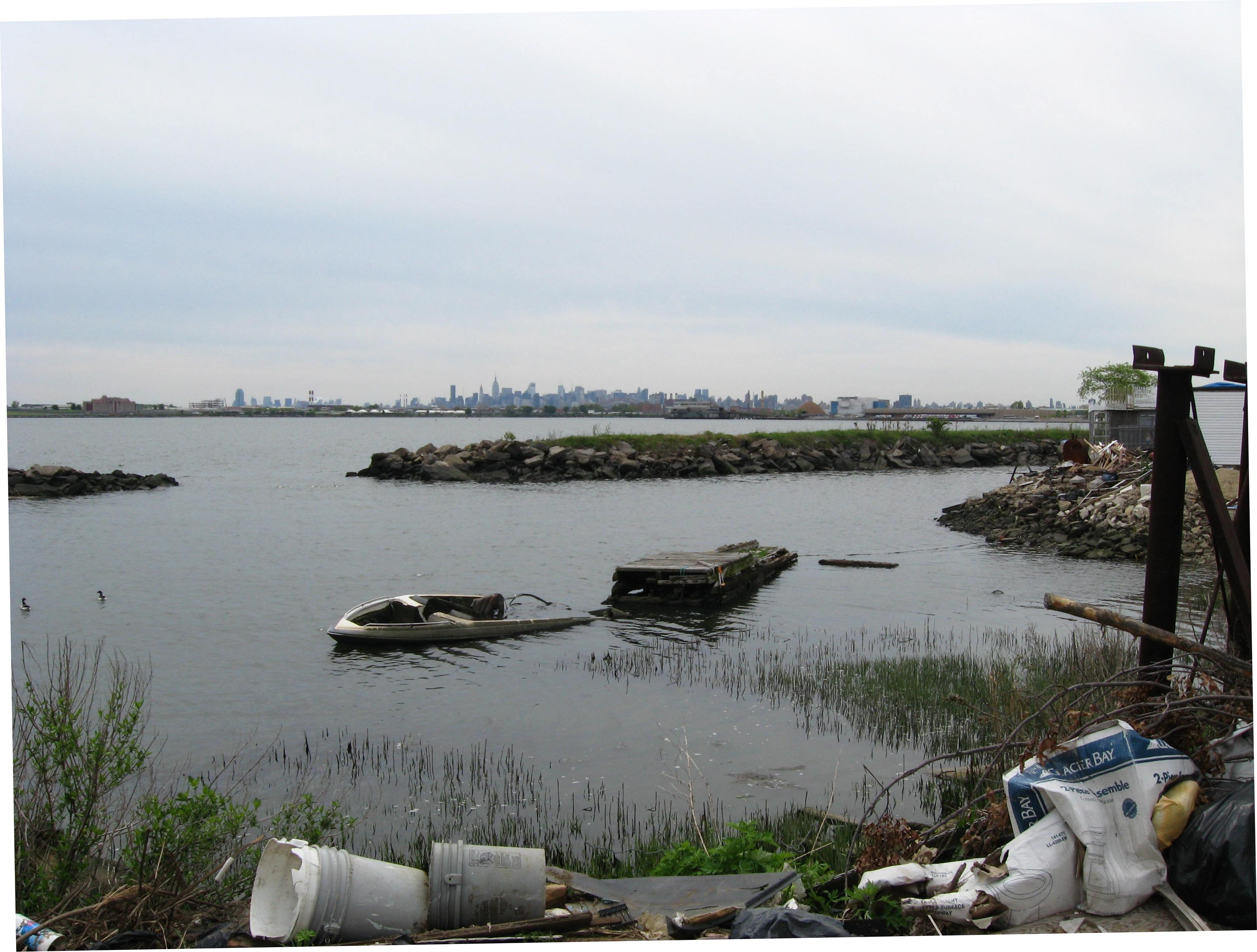 Looking southwest at artificial lagoon at west end of Clason Point Park, early afternoon. Background includes Rikers Island, Long Island City tower, Empire State Building, and Hunts Point, Bronx.